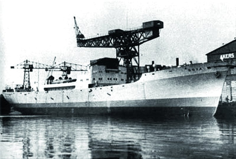 MV Goya in Aker Shipyard in Oslo, 1940.